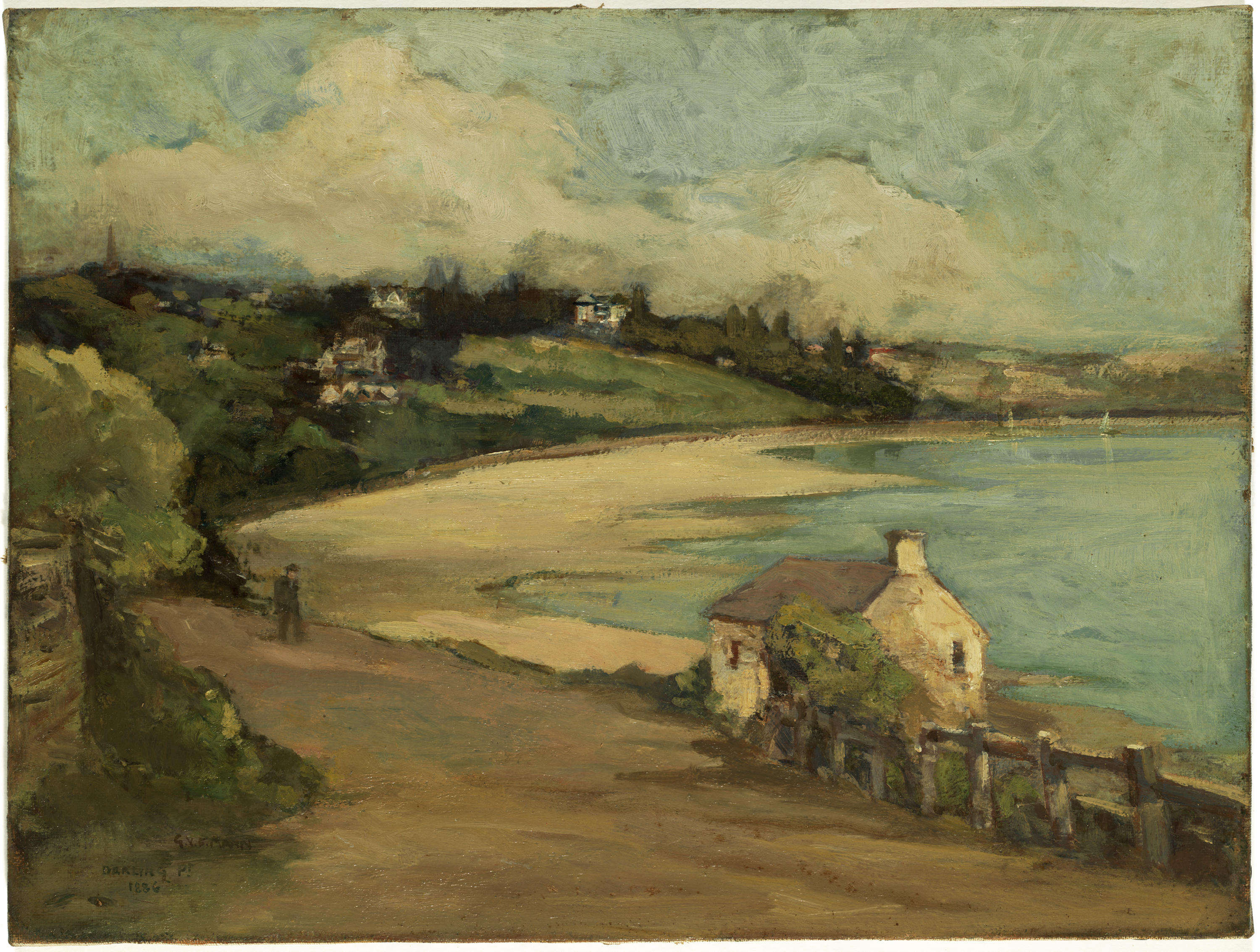 Darling Point, oil painting, 1886, Gother Victor Fyers Mann, State Library of New South Wales, DG 246